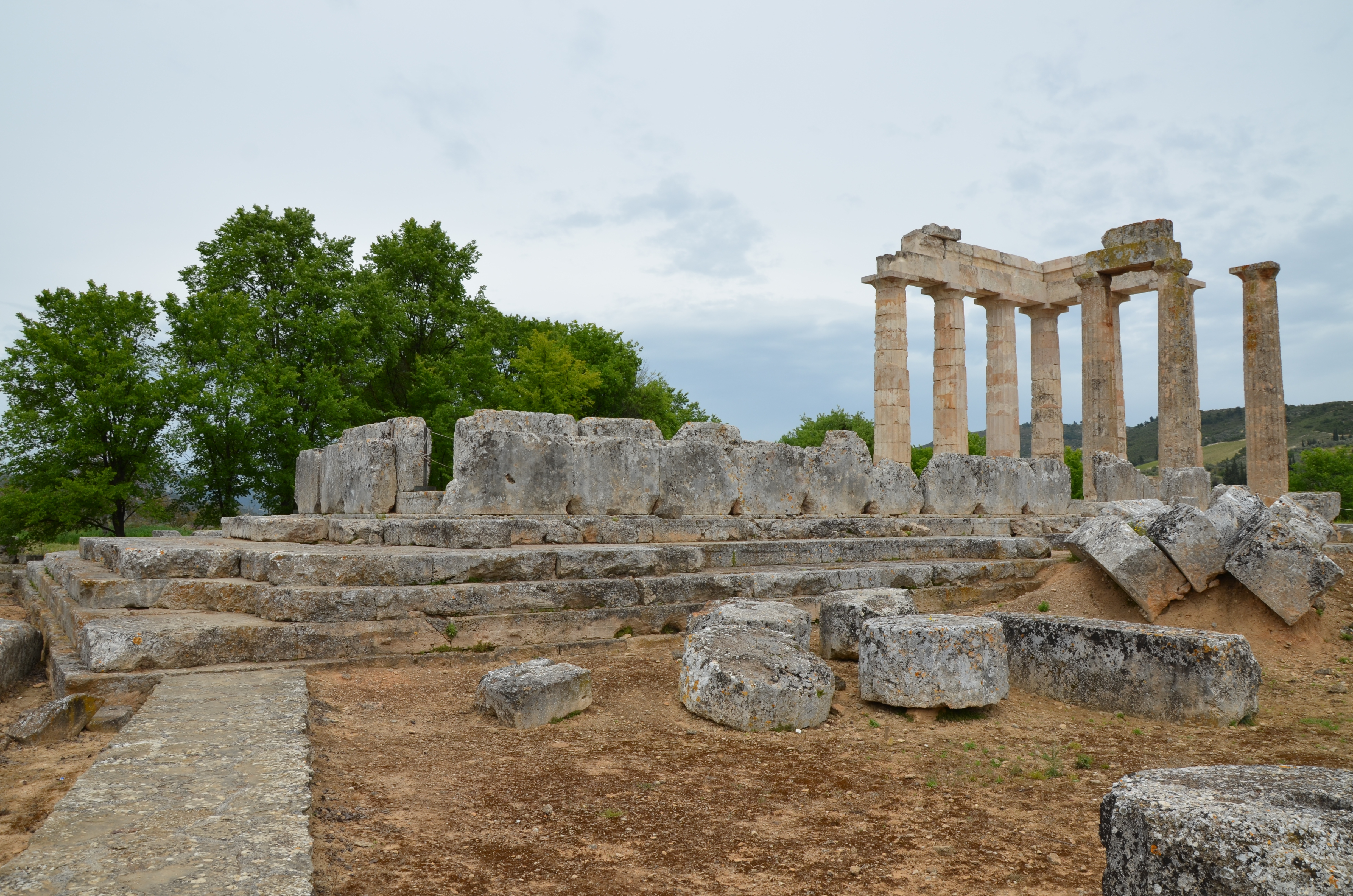 Temple of Zeus, constructed during the last third of the 4th century B.C. (ca . 330), Nemea